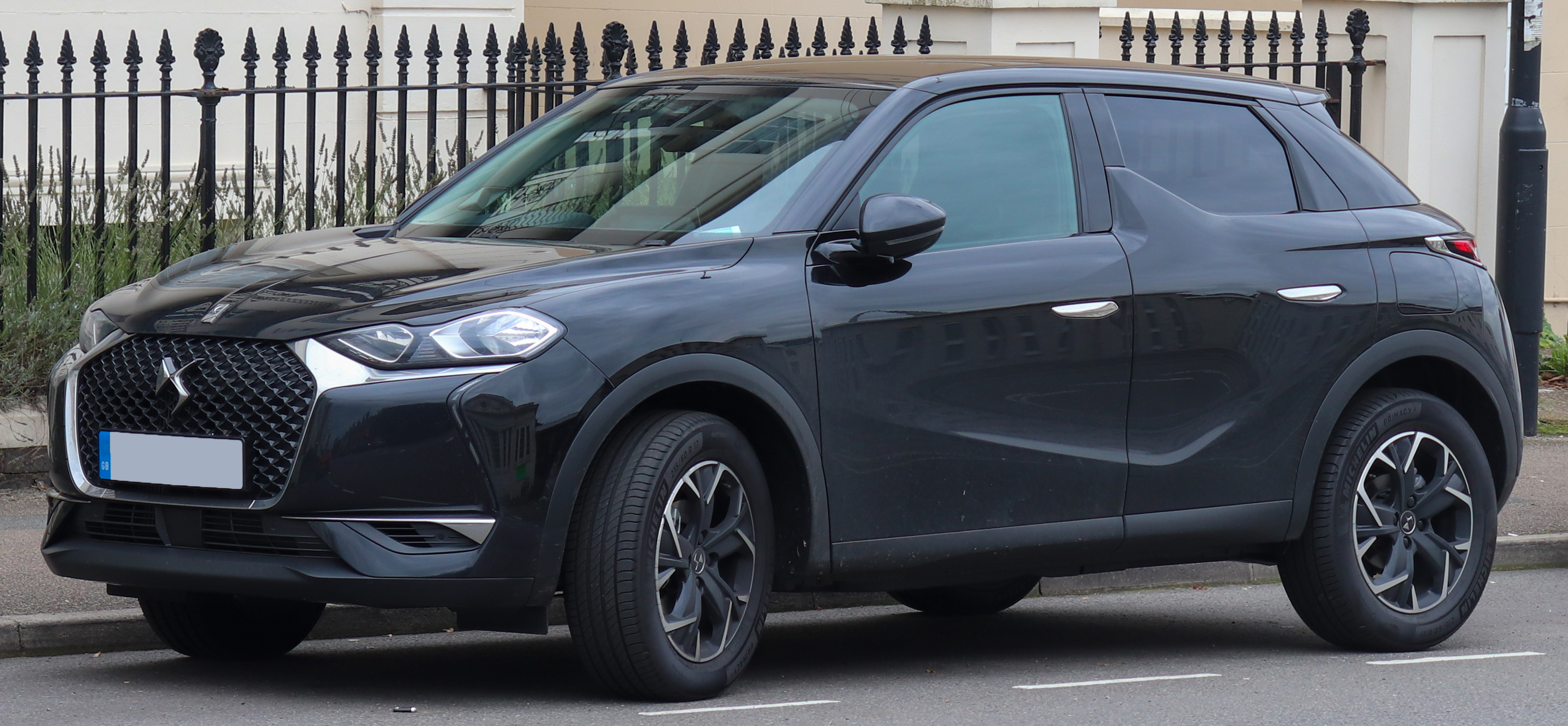 2019 DS DS3 Crossback Prestige BlueHDi 1.5 Front Taken in Leamington Spa